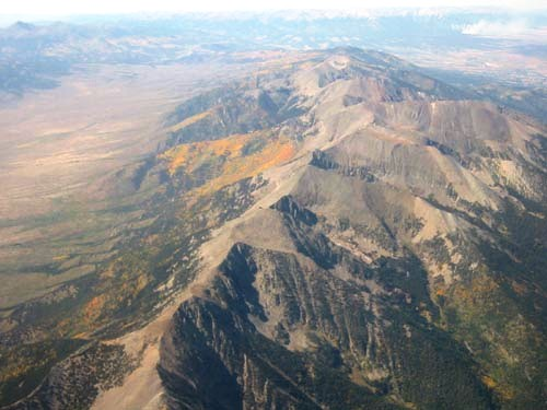 Aerial view of the Colorado Rocky Mountains